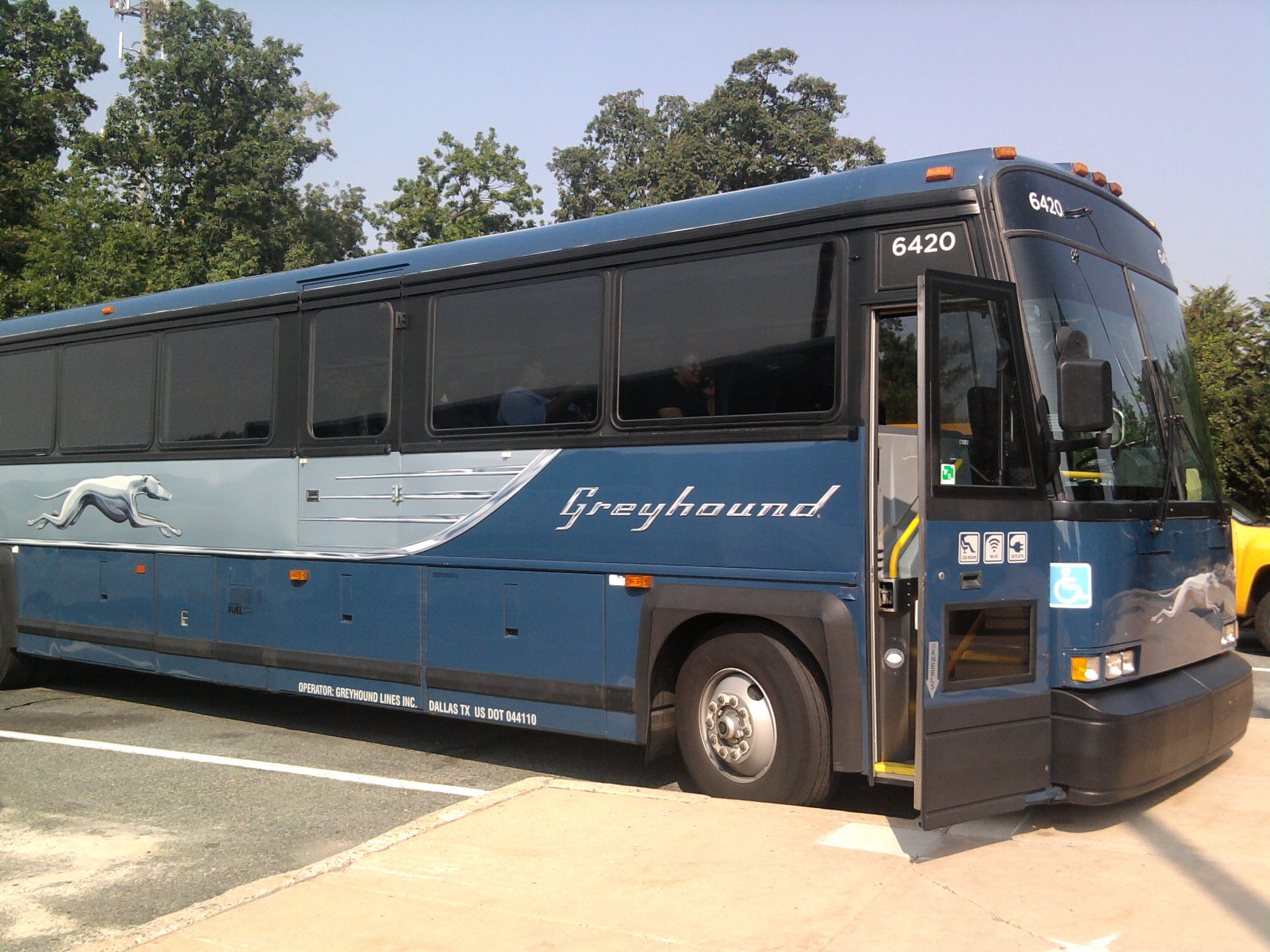 Greyhound bus stopping at a rest area